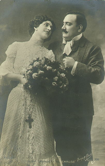 Portrait of Lina Cavalieri and Enrico Caruso